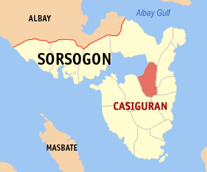 Map of Sorsogon showing the location of Casiguran